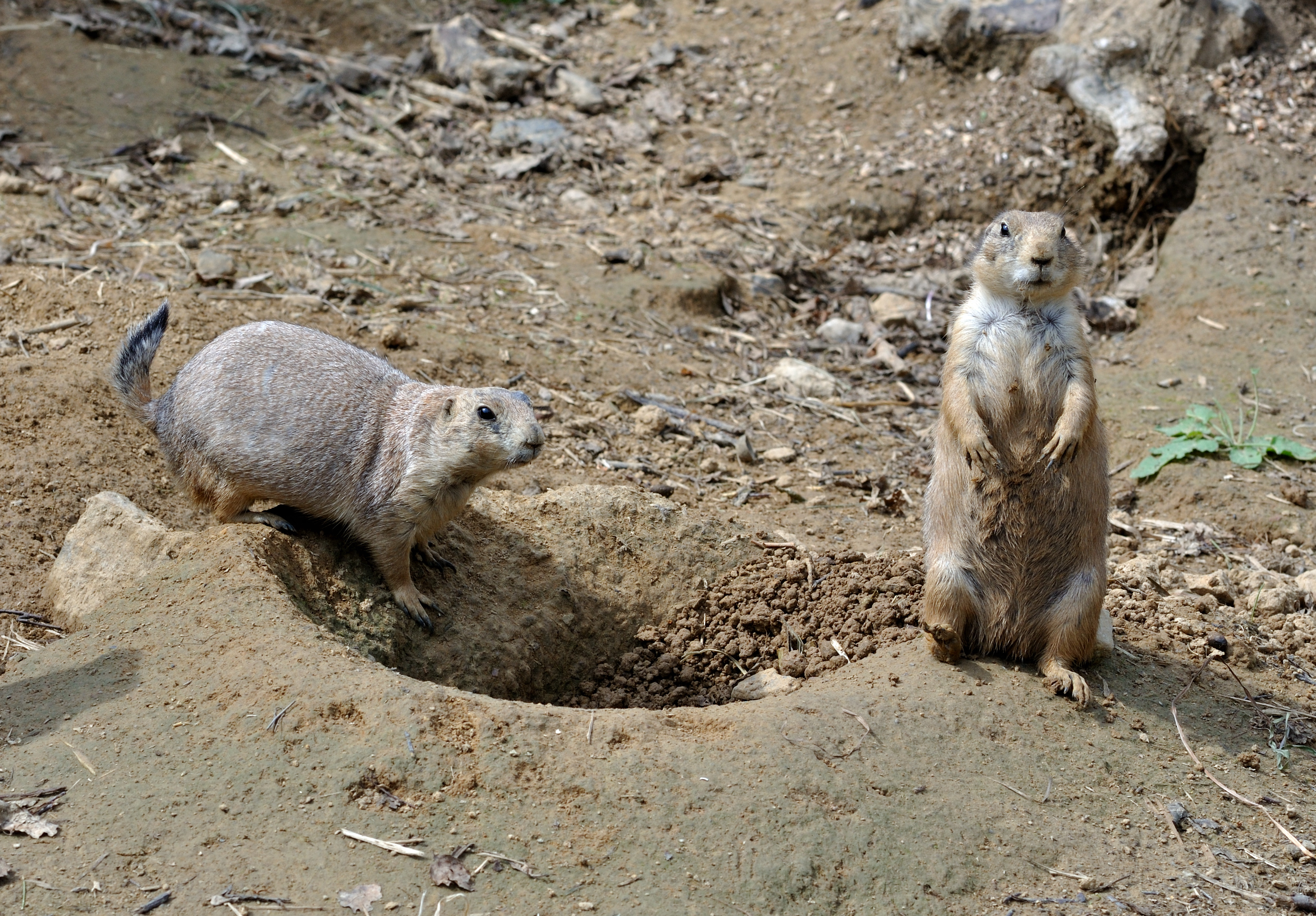 Black-tailed Prairie Dogs (Cynomys ludovicianus) in the Zoo Osnabrück, Germany.